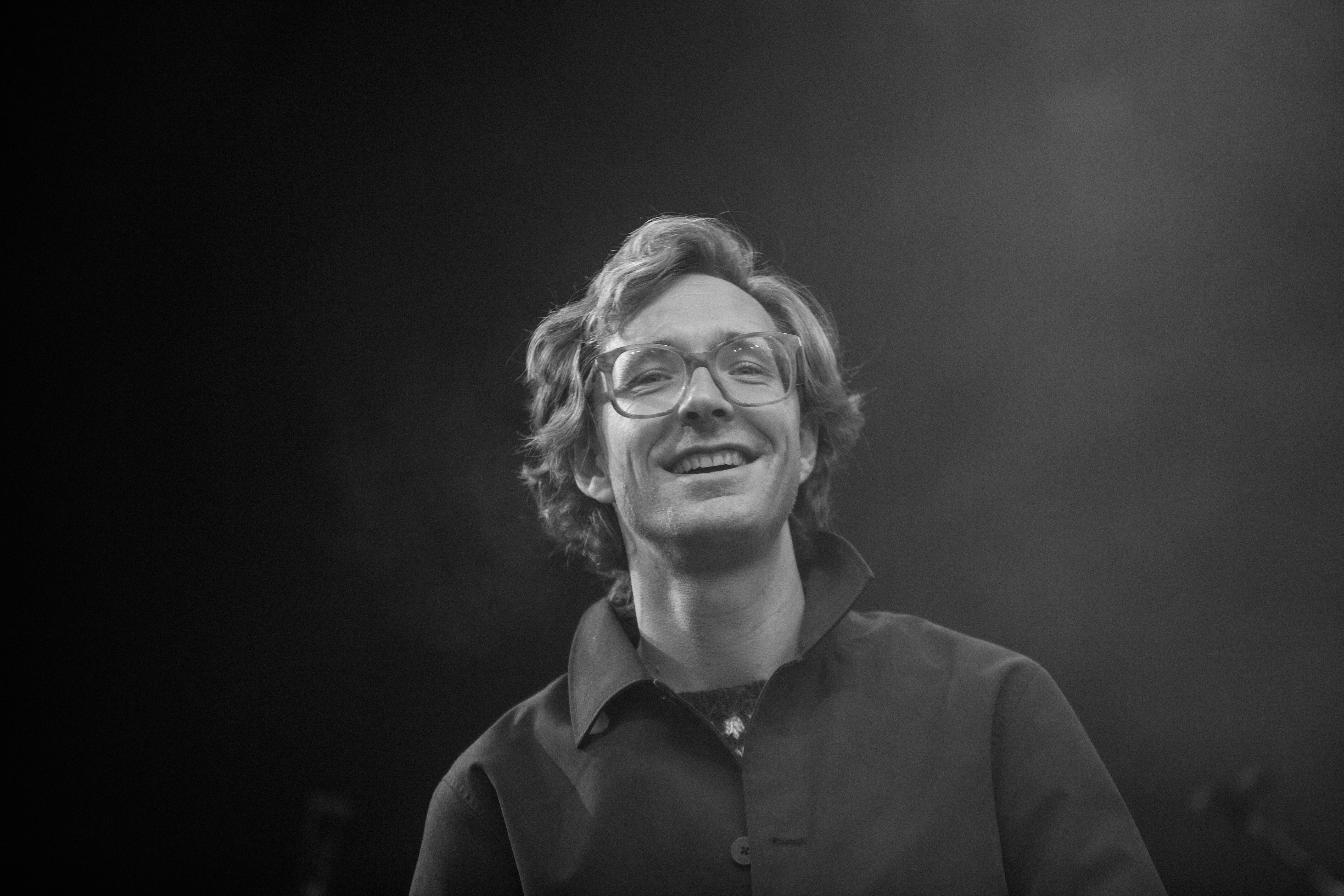 The norwegian singer and musician Erlend Øye at the Immergut Festival in 2015